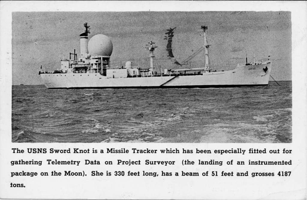 QSL card from J. M. Alexander, W4PUY/MM, aboard USNS Sword Knot (T-AGM-13), a U.S. Navy missile tracker vessel at Mombasa, Kenya (1967).